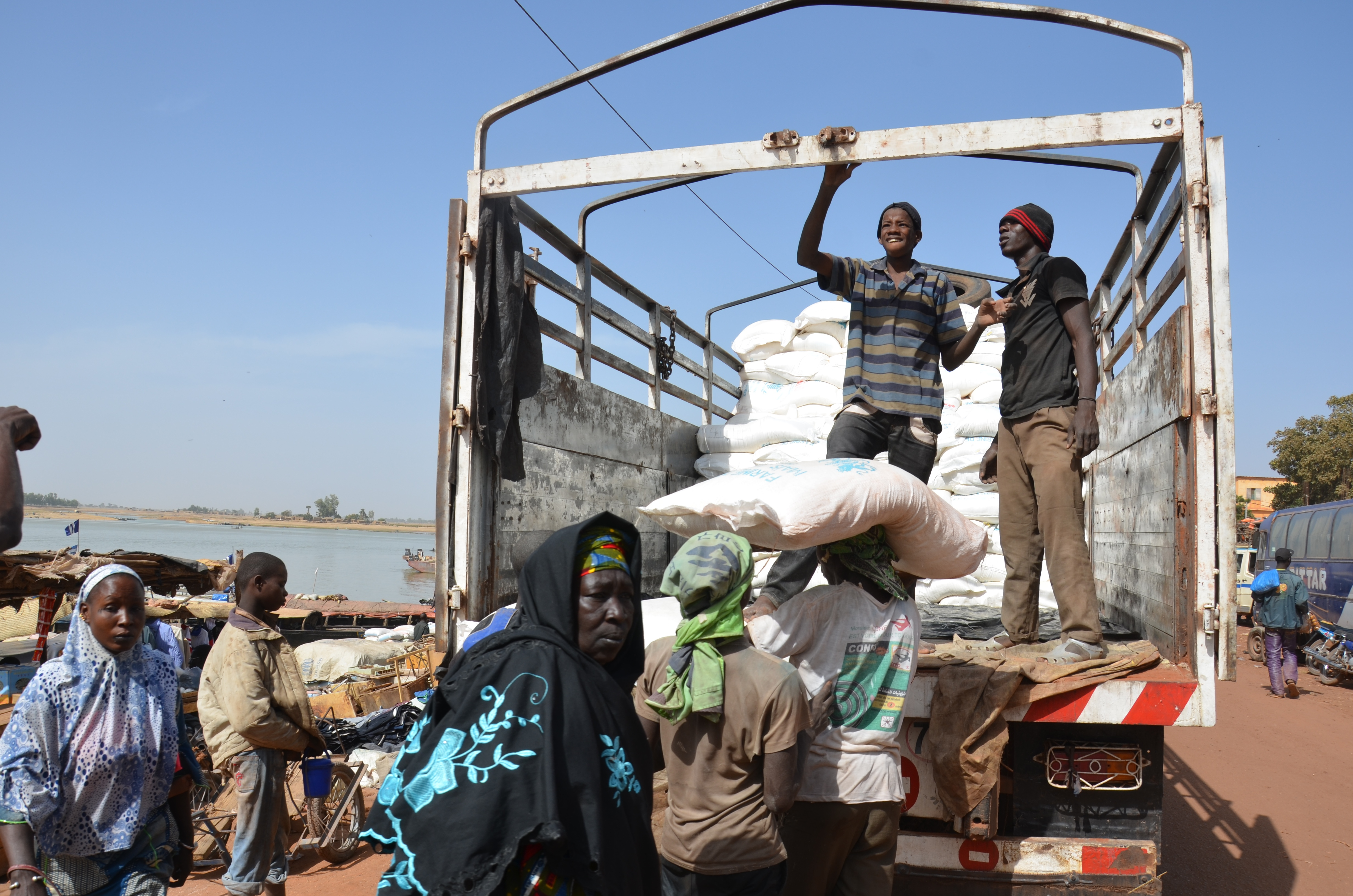 UK food aid is also reaching thousands of people in conflict-affected areas in central and northern Mali as well. Here, sacks of UK-funded rice are being transported by WFP from the central river port of Mopti to the northern town of Timbuktu and beyond. Although security continues to challenge many humanitarian agencies responding in northern Mali, WFP has undertaken food deliveries to the Timbuktu region, up the river Niger, for more than 100,000 people. Distributions are ongoing in Timbuktu and four surrounding districts, with the potential for further food deliveries to take place by road in the coming days. Photo © Daouda Guirou/WFP